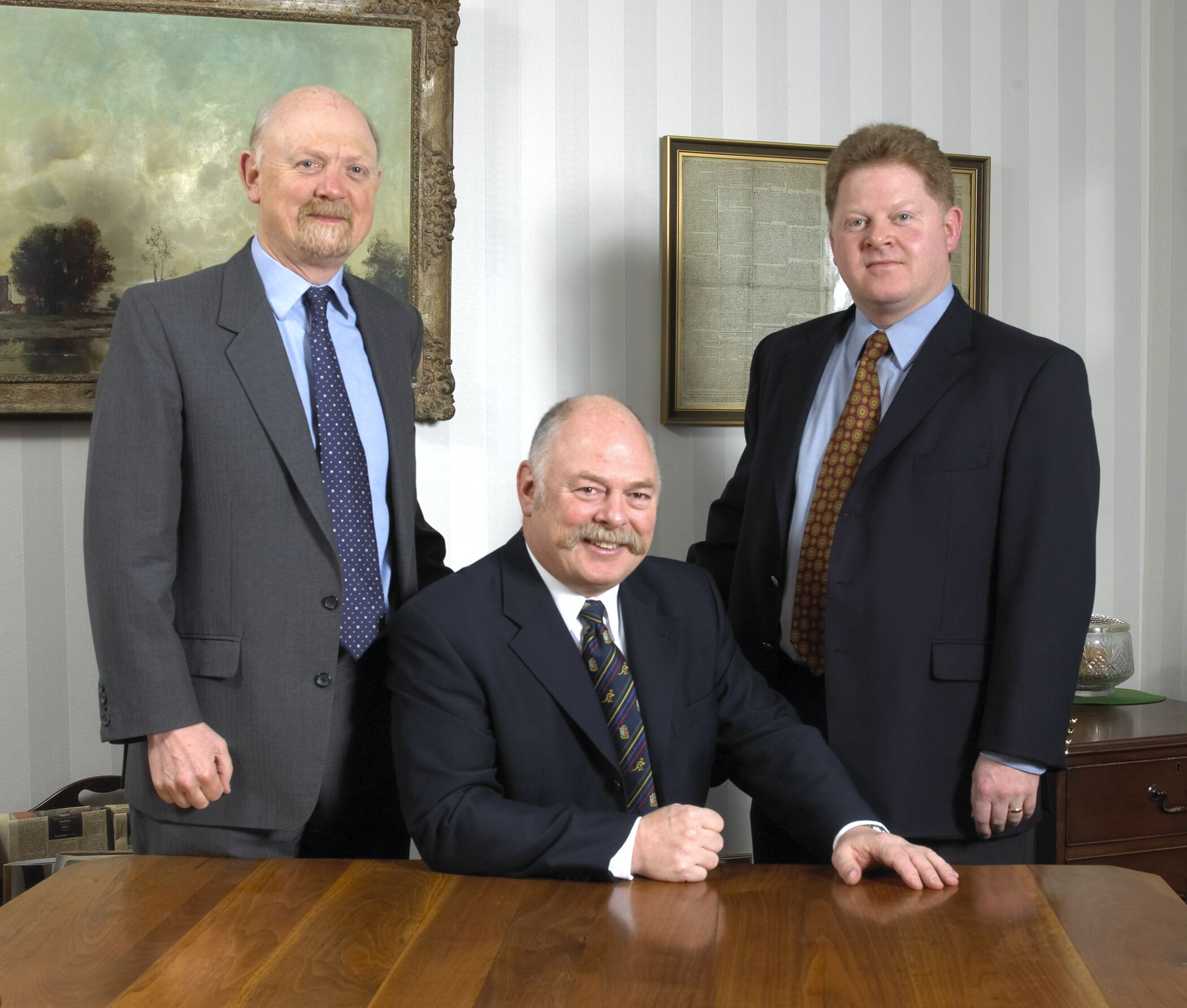 Salt brothers photo